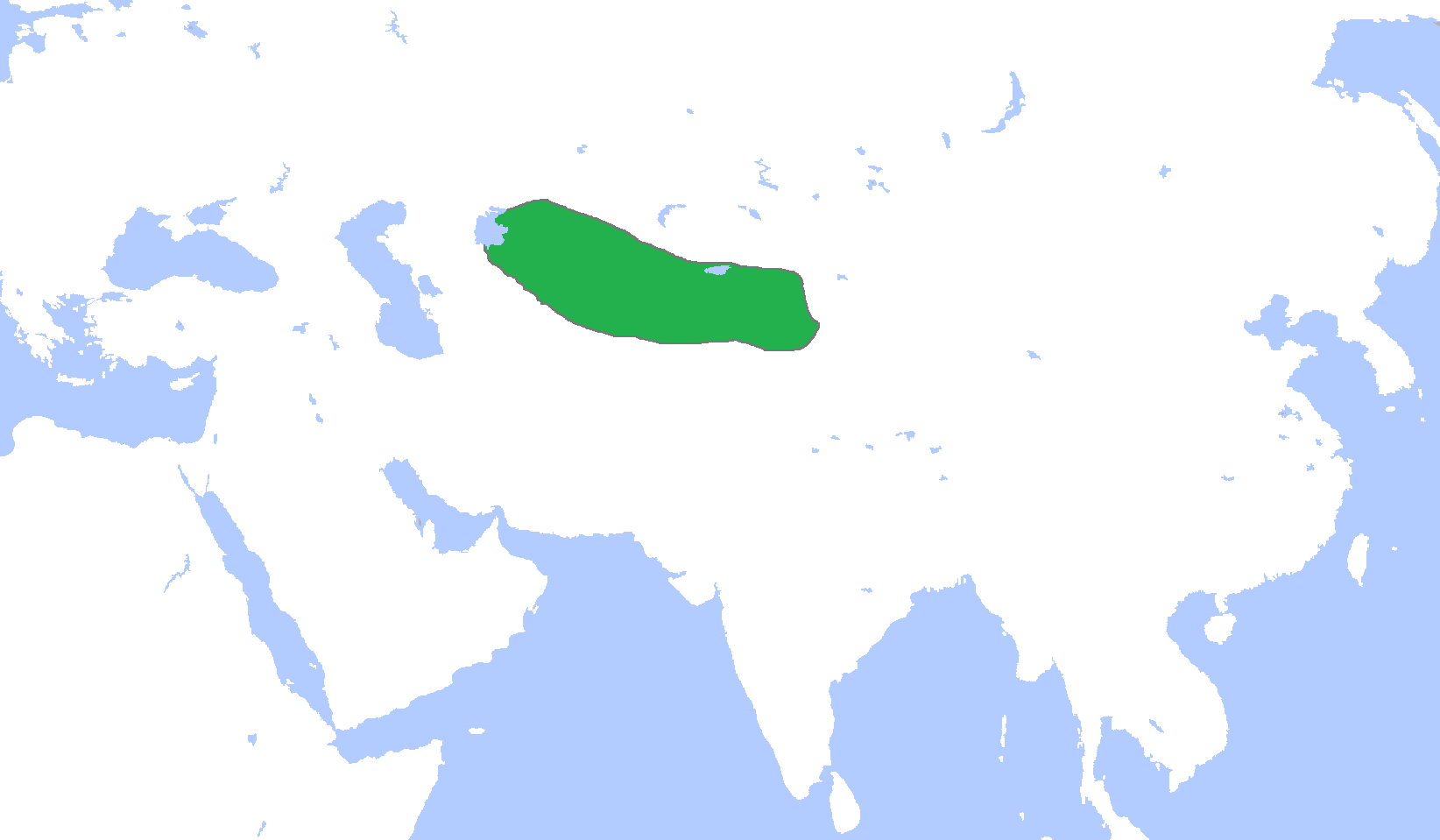 Locator map of the Kara Khanids, c. 1000. (Partially based on Atlas of World History (2007) - The World 750-1000, map)